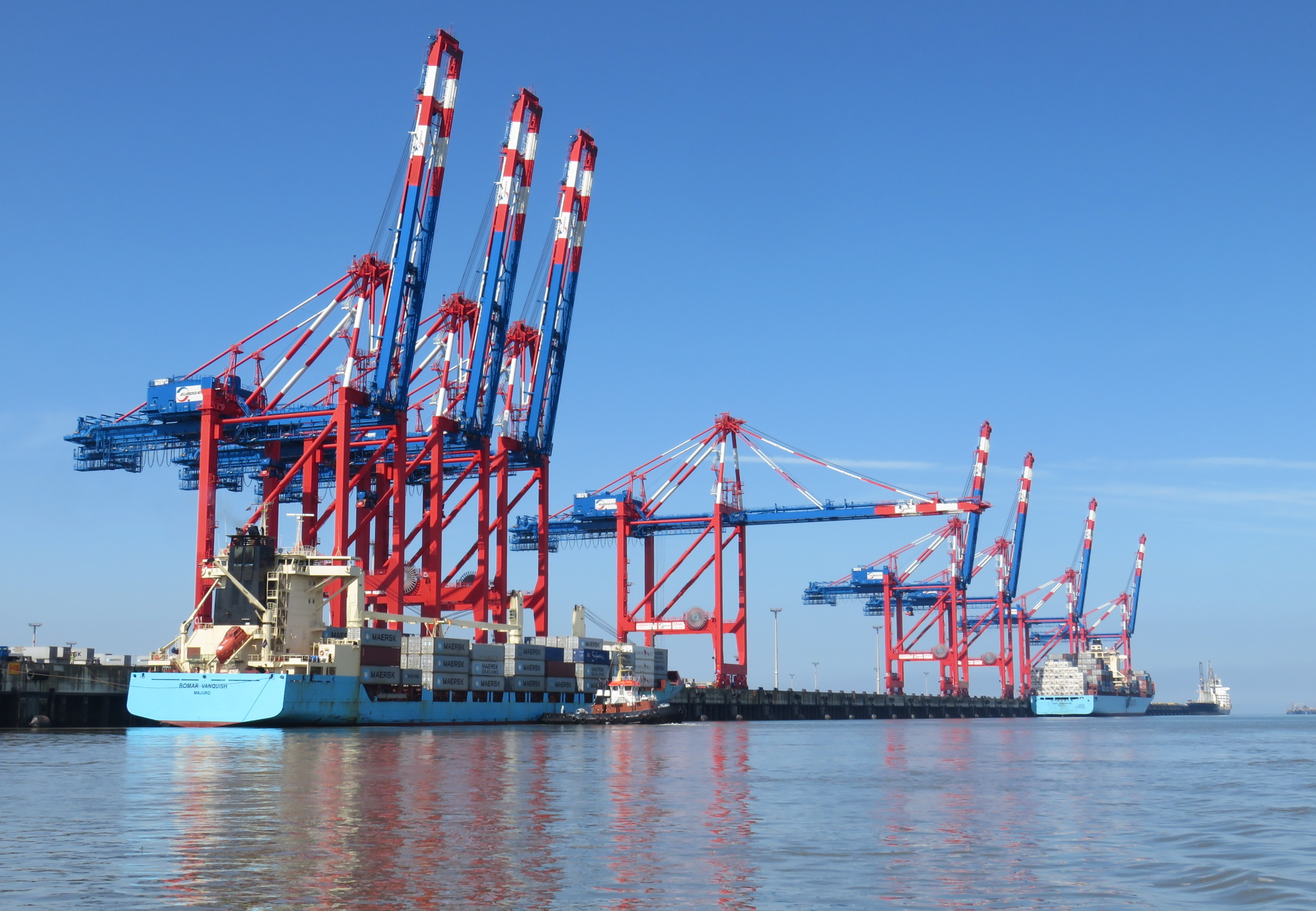 Container ships Bomar Vanquish (assisted by tugboat Bär), Seago Bremerhaven and Purple Beach moored at the JadeWeserPort